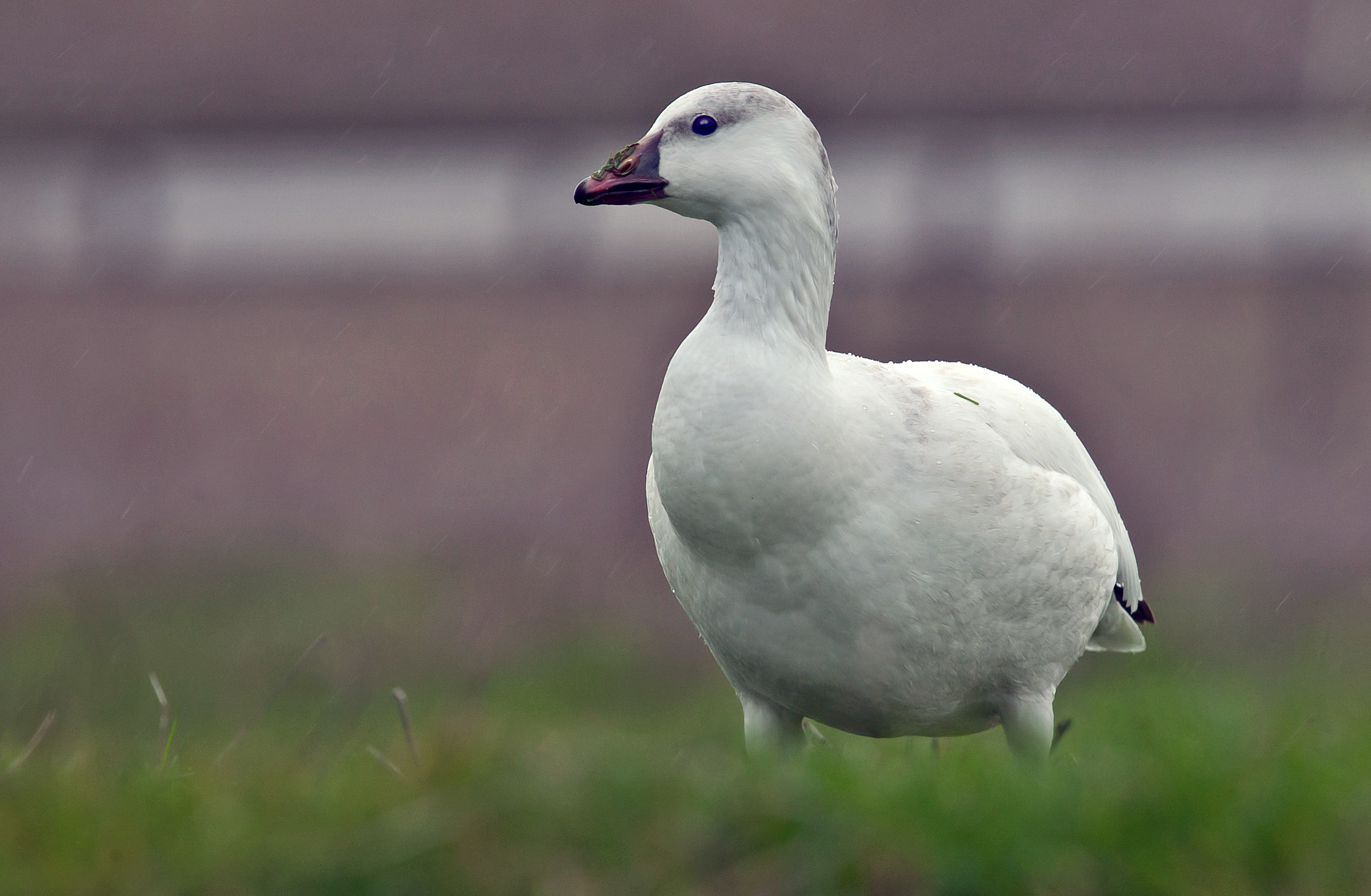 A Ross's Goose in California, USA.